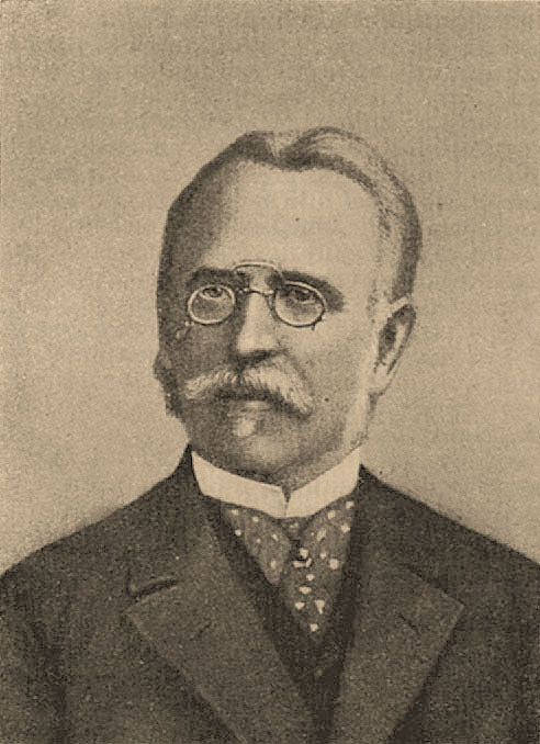 Illustration from Brockhaus and Efron Jewish Encyclopedia (1906—1913)